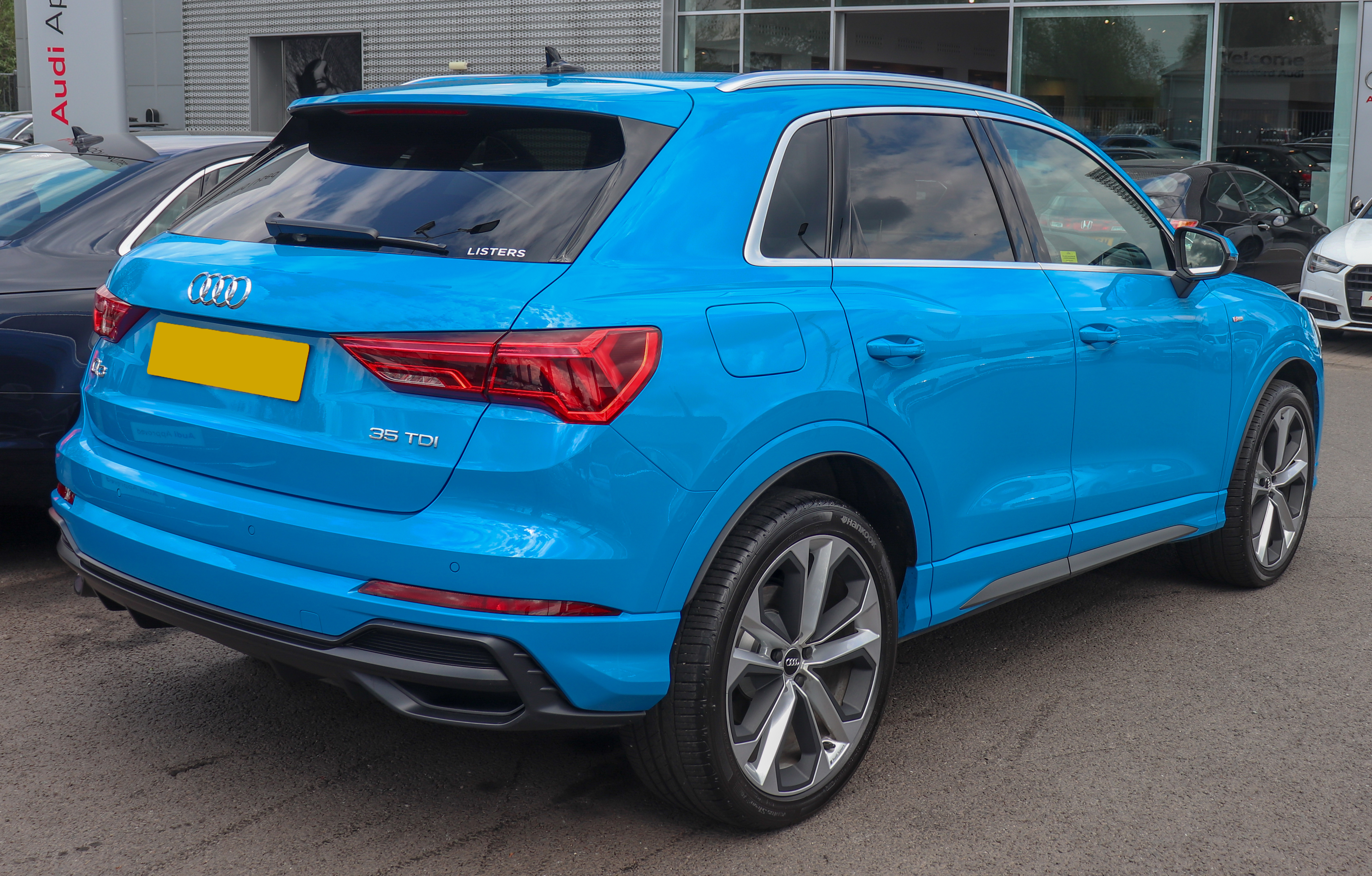 2019 Audi Q3 S Line 35 TDi S-A 2.0 Rear Taken in Stratford-upon-Avon